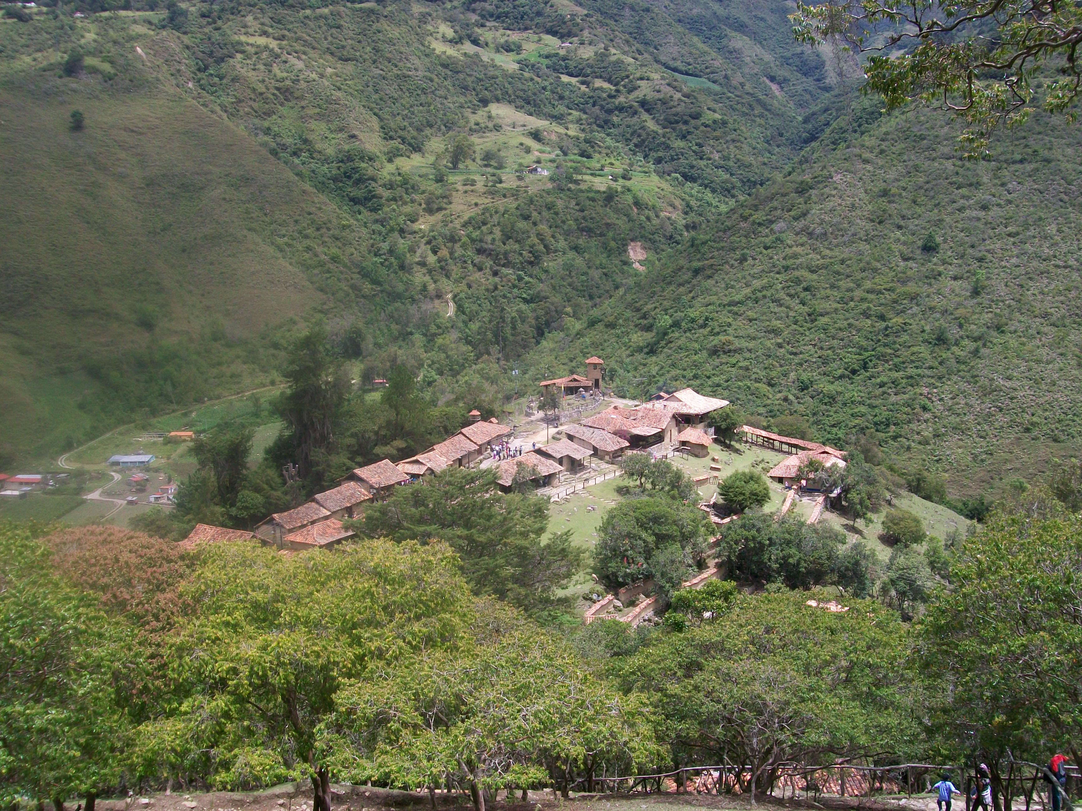 Skyline view of the theme park "Los Aleros", on the foothills of the Cordillera de Mérida, Venezuela